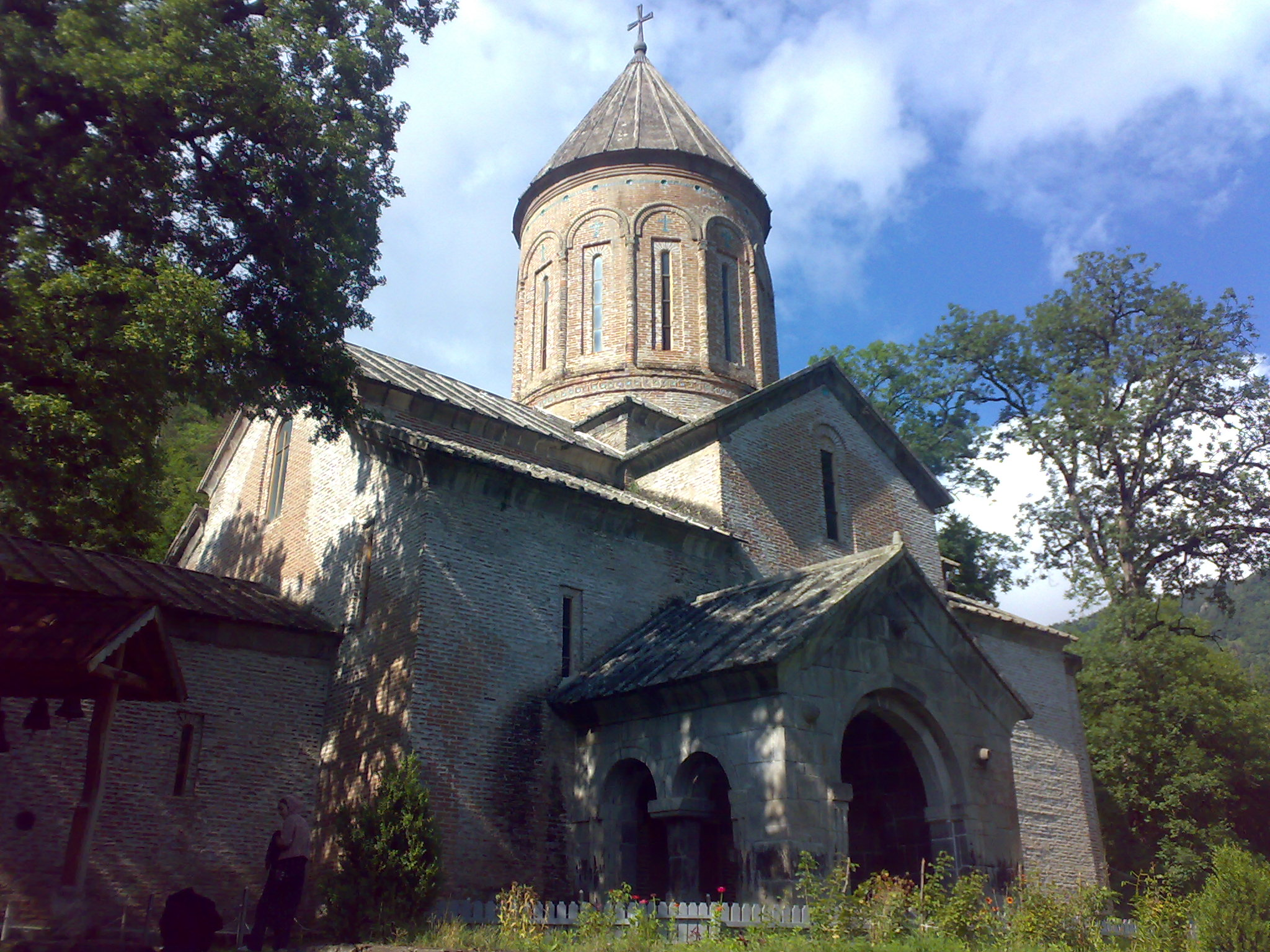 Timotesubani